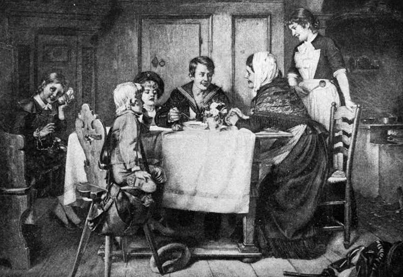 Illustration from "Vivilore: The Pathway to Mental and Physical Perfection"